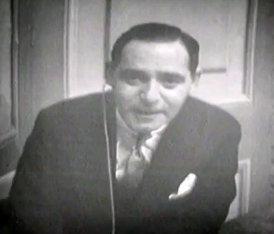 Screenshot of Ben Grauer as host of the WNBT-TV/NBC 10th anniversary special.